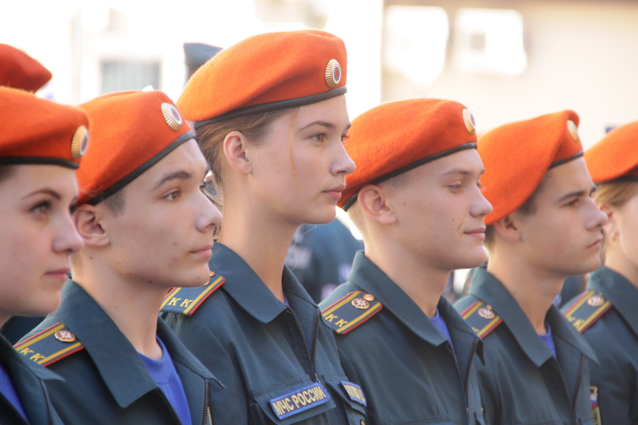 Cadet ugps